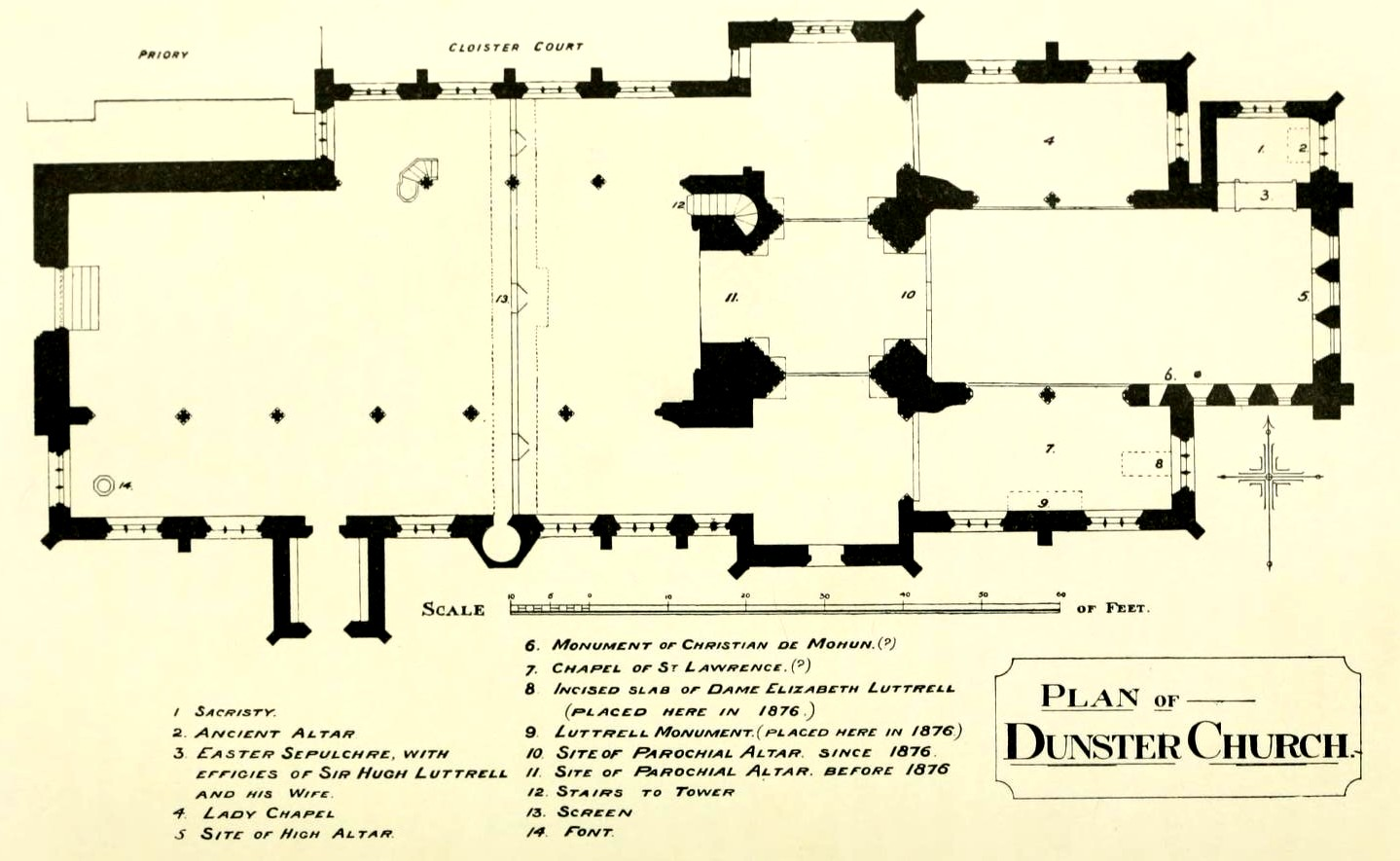 Plan of the Priory church of St George, Dunster, Somerset, in 1909